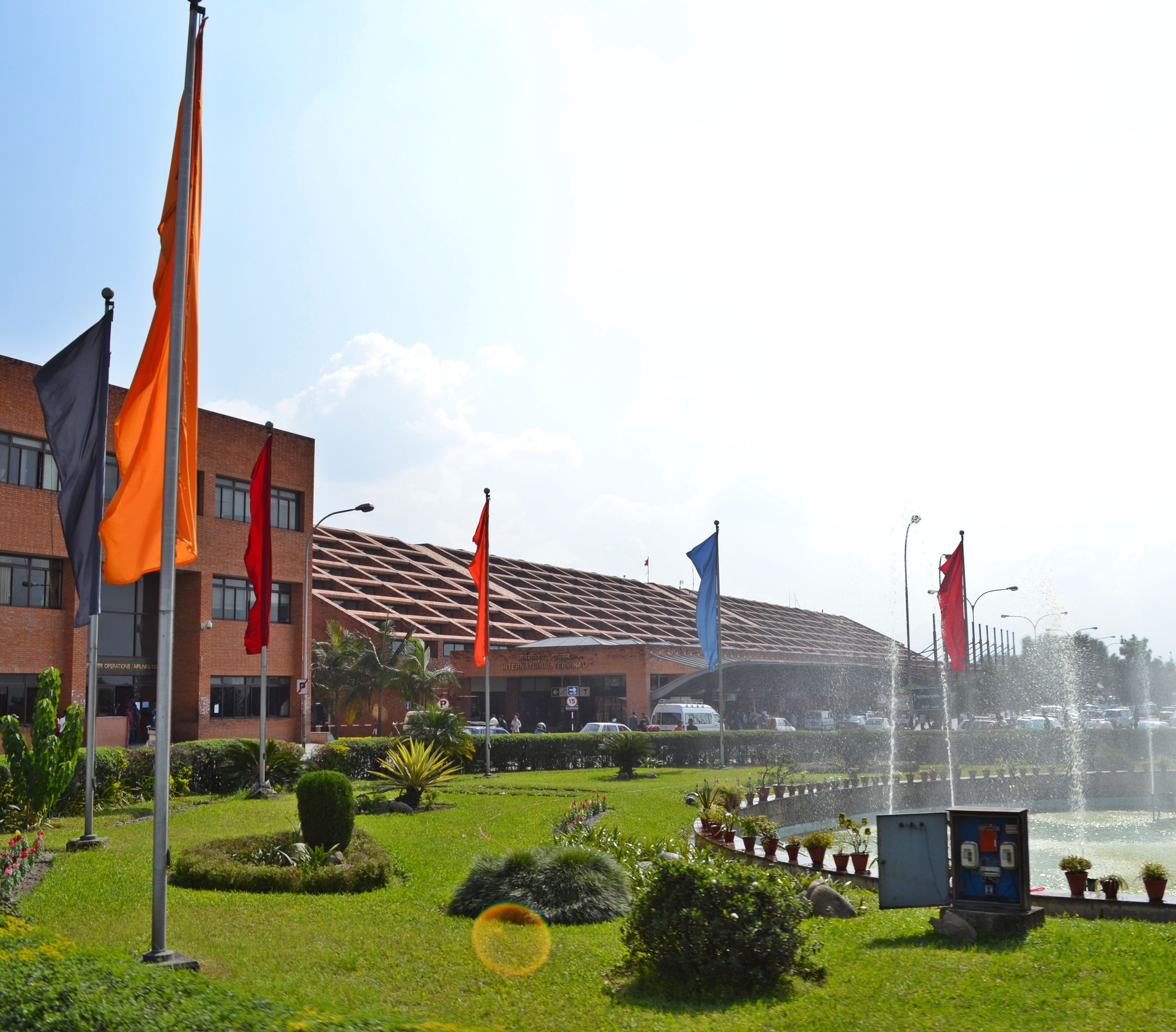 Tribhuvan International Airport The international airport of Kathmandu.